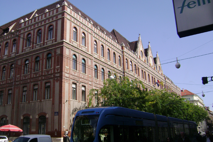 Former main post building in zagreb